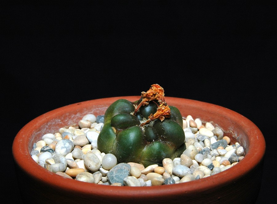 My own plant (Cintia knizei) in a 6cm pot.